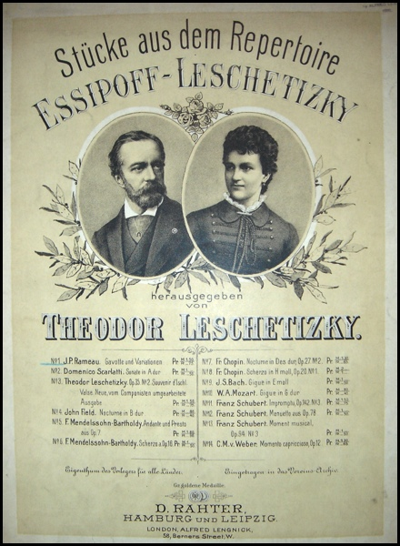 The cover of collection «Stücke aus dem Repertoire Essipoff-Leschetitzky» published by D. Rahter (Leipzig—Hamburg) in 1884. With photographed portraits of Anna Essipova and Theodor Leschetizky.